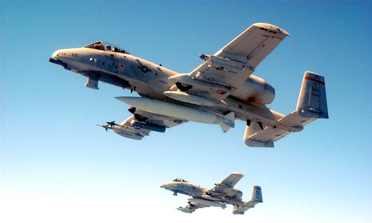 Two A-10 Thunderbolts in flight